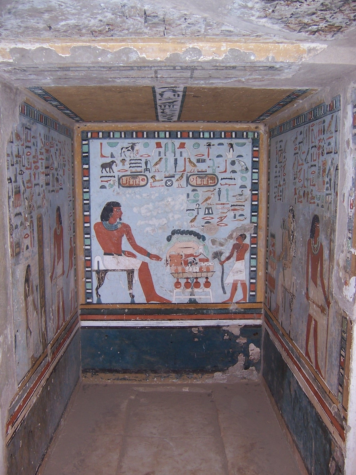 Pictures from Aswan, Egypt